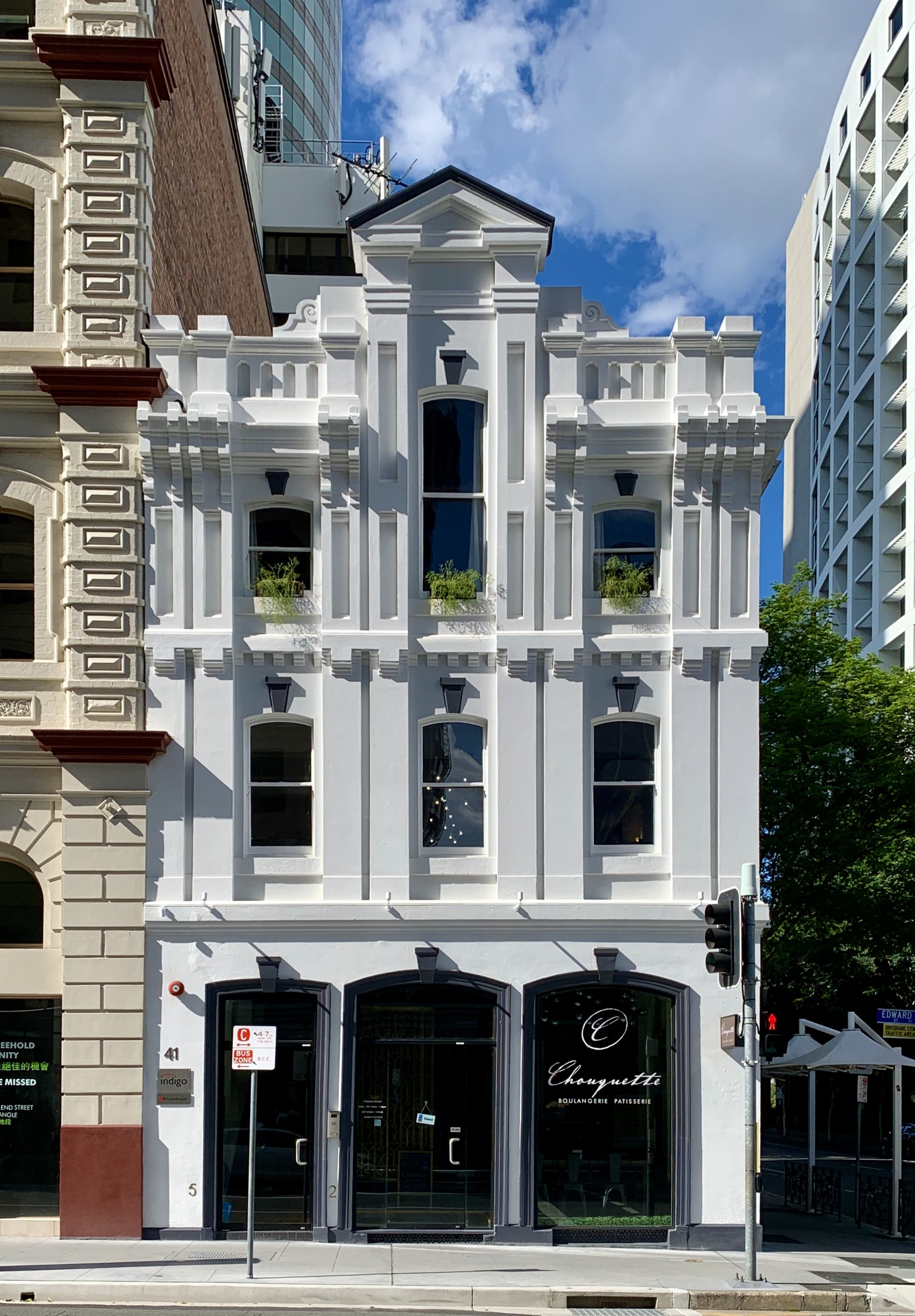 R Martin & Co Building, 41 Edward Street during the COVID-19 pandemic in Brisbane, Australia